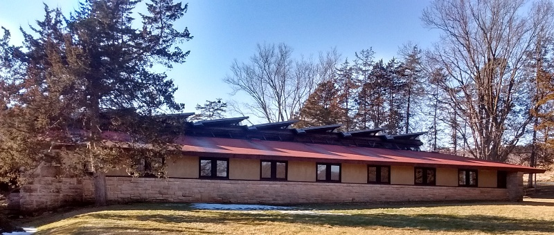 The east facade of the Hillside Drafting Studio on architect Frank Lloyd Wright's Hillside Home School II on his Taliesin estate in Spring Green, Wisconsin.